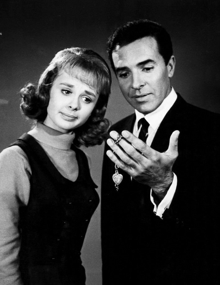 Photo of Debbie Watson (Karen) and Miguel Landa (her teacher) from the television program Karen. In this episode, Karen thinks one of her teachers is the mystery person who sent her an expensive bracelet.